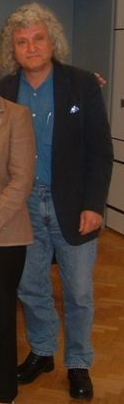 BBC Radio 4 presenting "The Reunion", focussing on EastEnders. From left to right, Jonathan McLeish, an original EastEnders casting director, Wendy Richards (Pauline Fowler), Anna Wing (Lou Beale), Leslie Grantham (Den Watts), Sue MacGregor, presenter of "The Reunion" and one of the shows first writers Bill Lyons, far right.